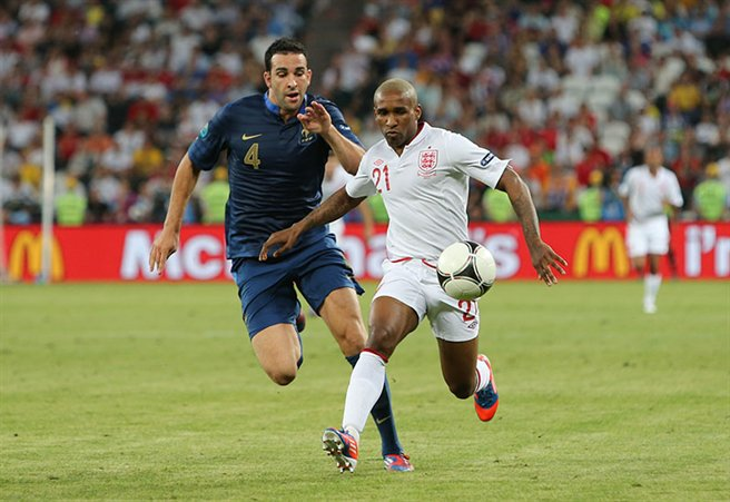 UEFA Euro 2012 match between France and England played in Donetsk at Donbas Arena. Final result was 1:1 (Nasri, Lescott).